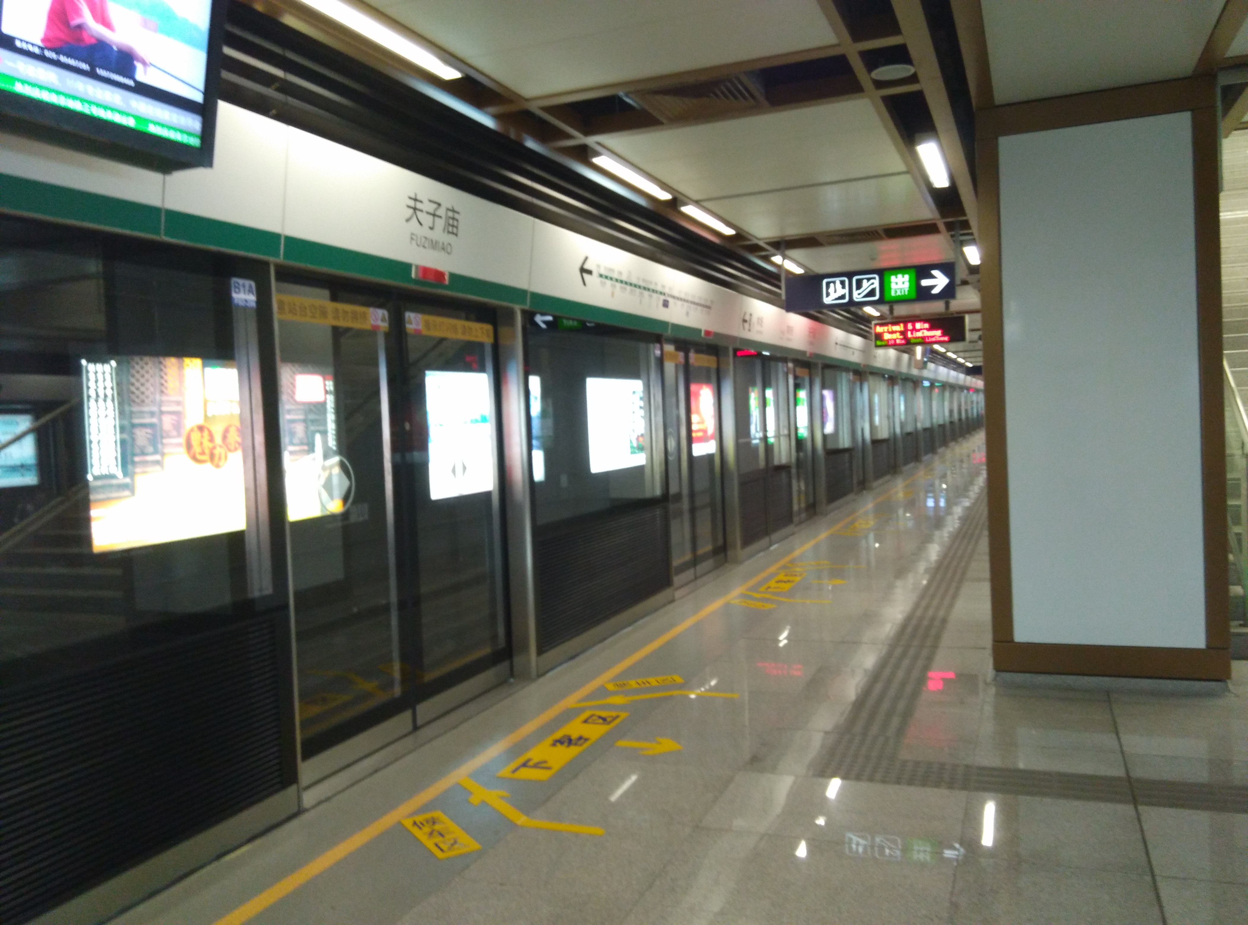 Fuzimiao Station of Line 3, Nanjing Metro.